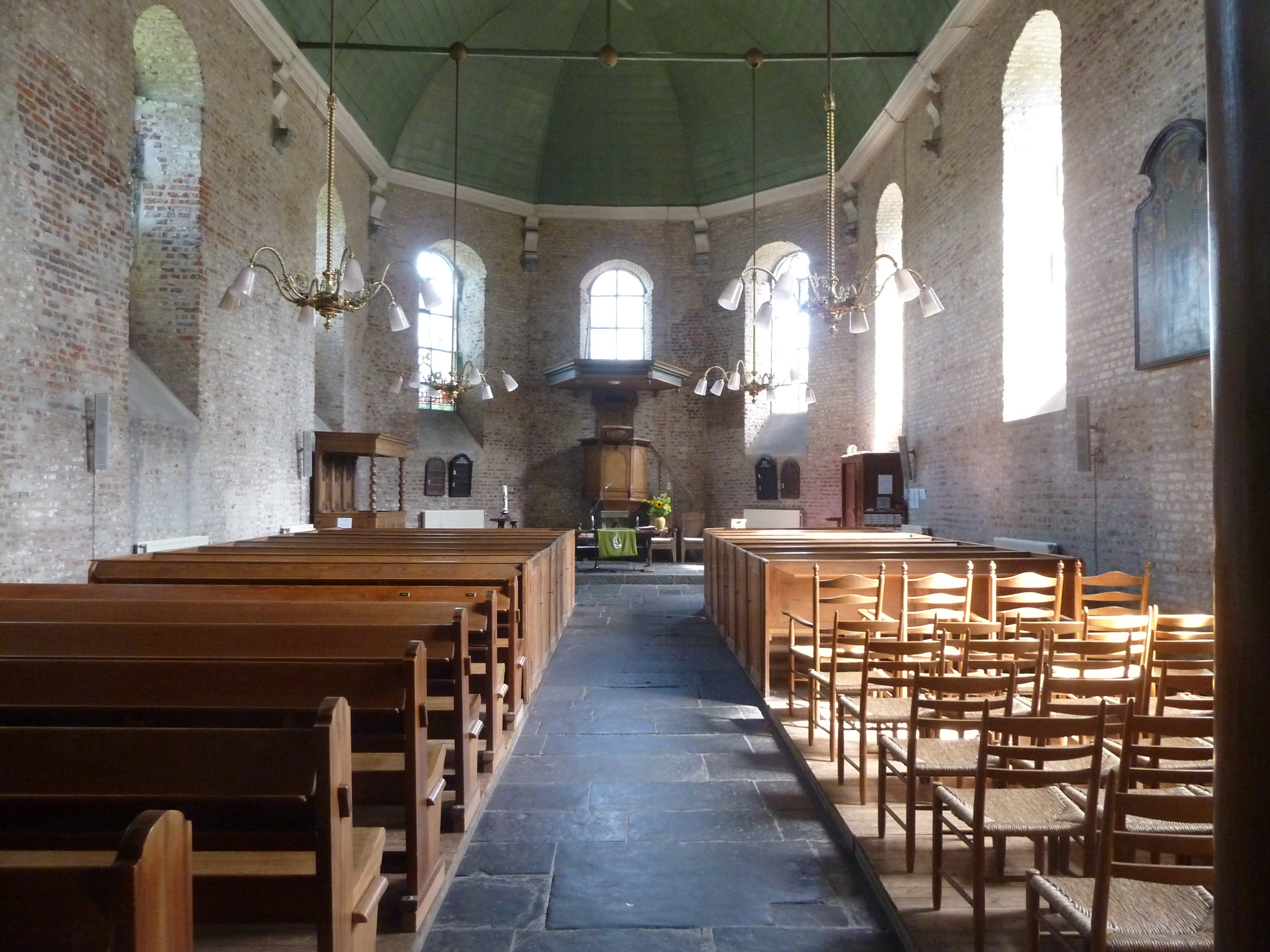 Interior 1, Hervormde Kerk